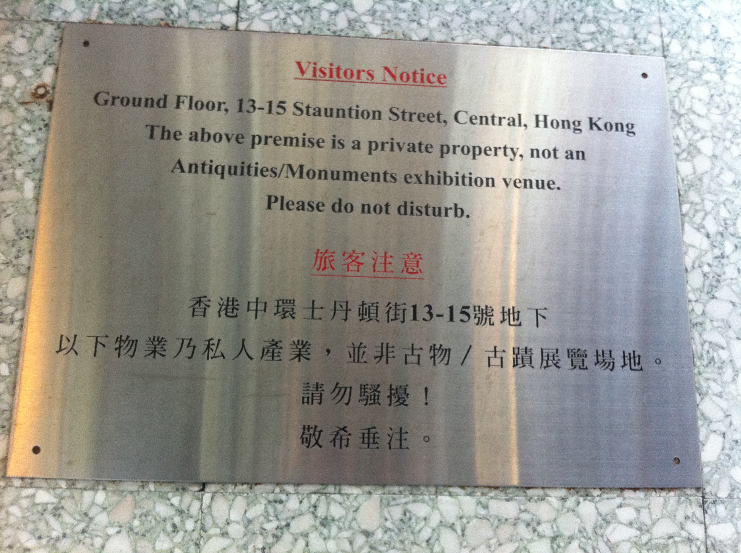 香港島zh:中環 士丹頓街